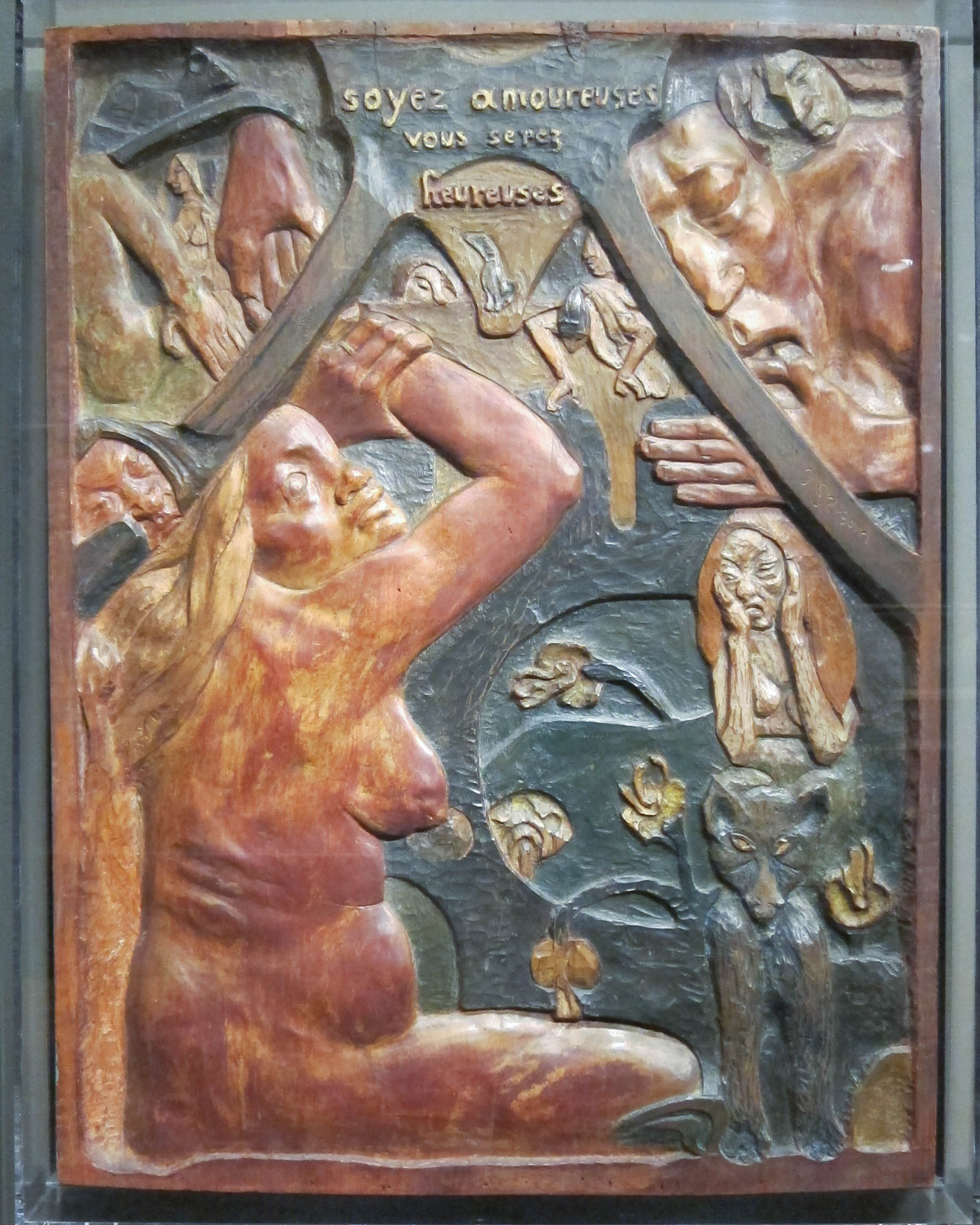 Paul Gauguin, Soyez amoureuses vous serez heureuses, relief. Image by Sharon Mollerus